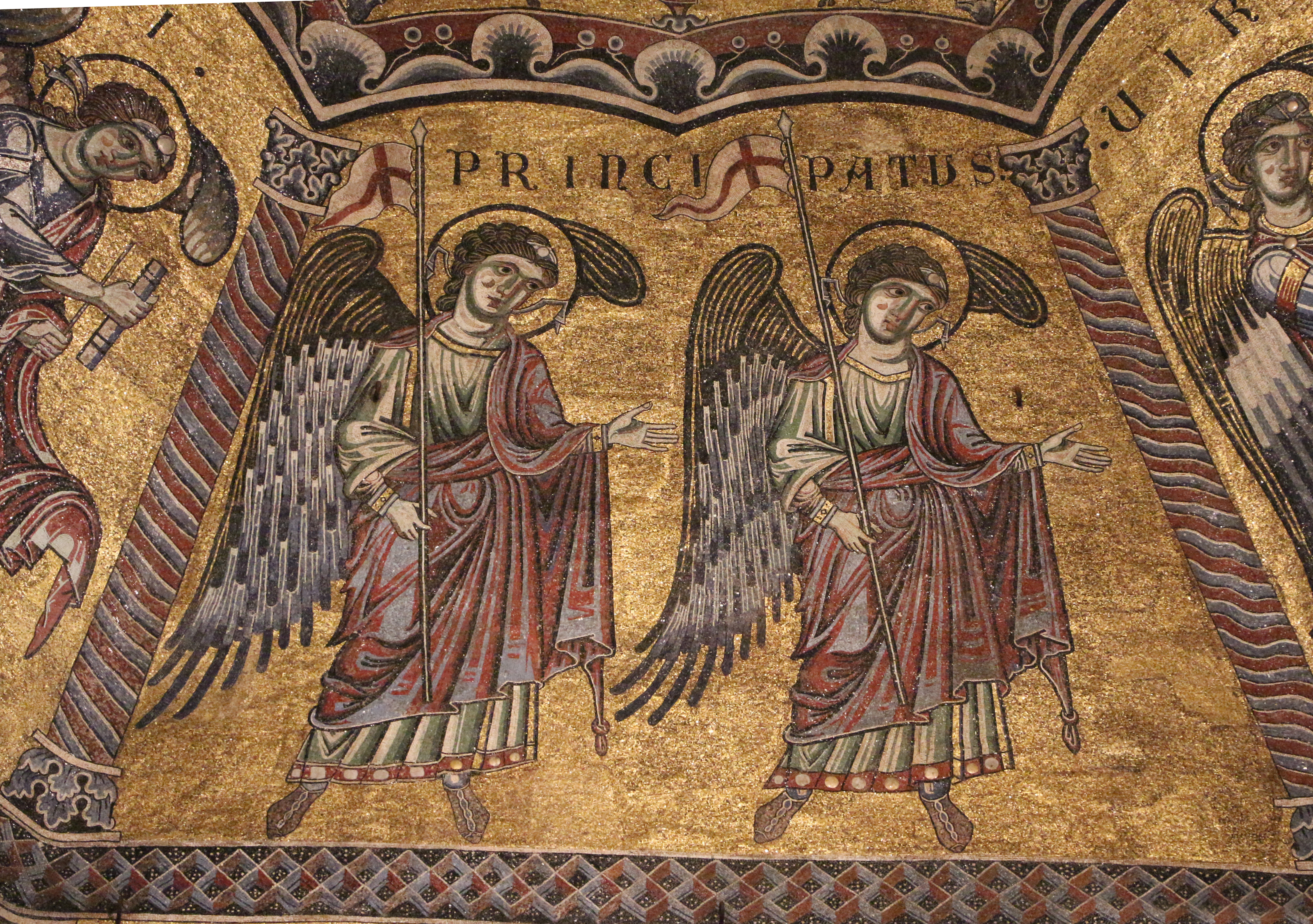 Angelic hierarchy in the Florence Baptistry